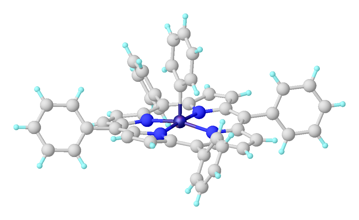 Structure of Fe(TPP)Ph from doi 0.1021/ic00192a033